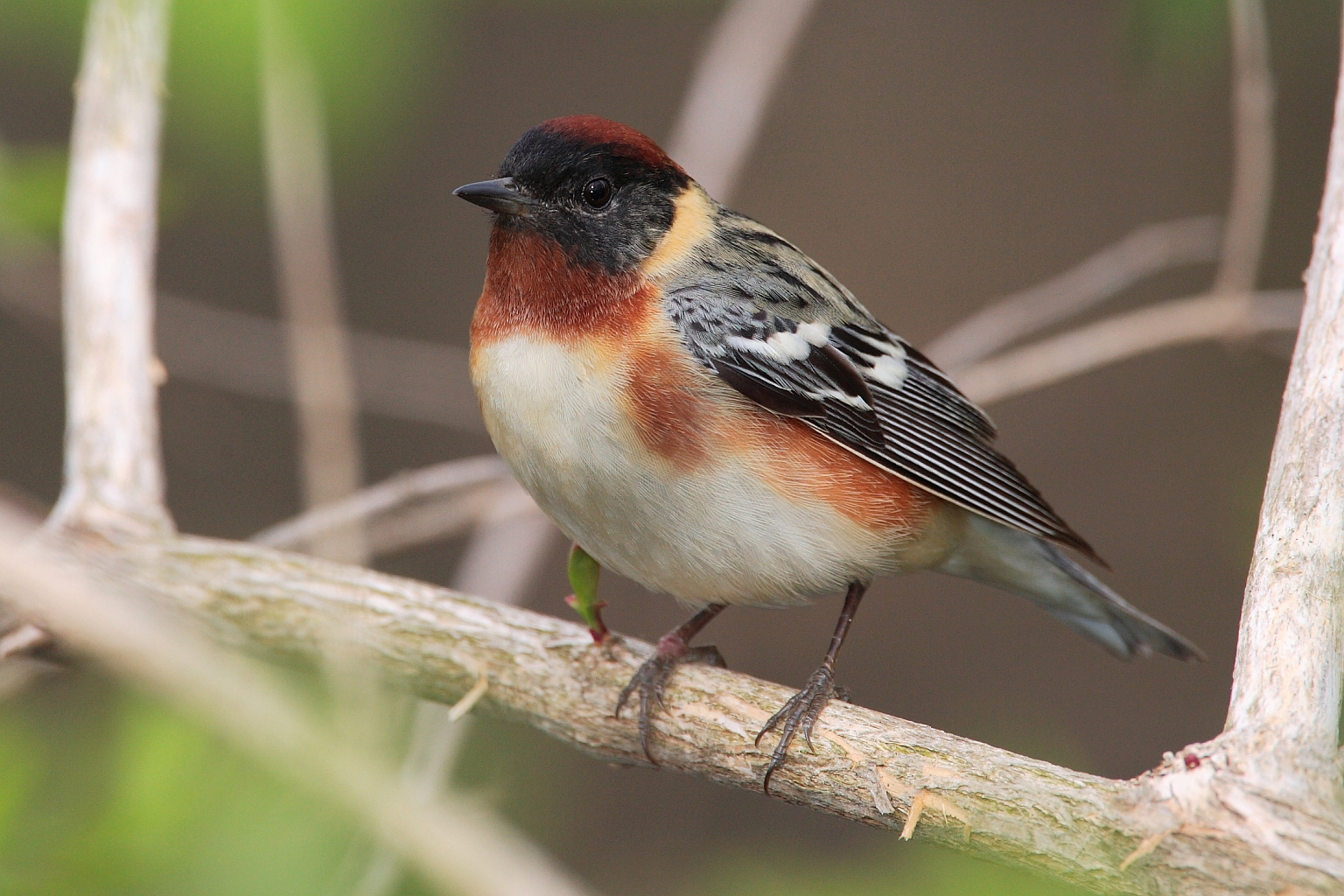 Bay-breasted Warbler. Canada Rondeau Provincial Park, Ontario, Canada.